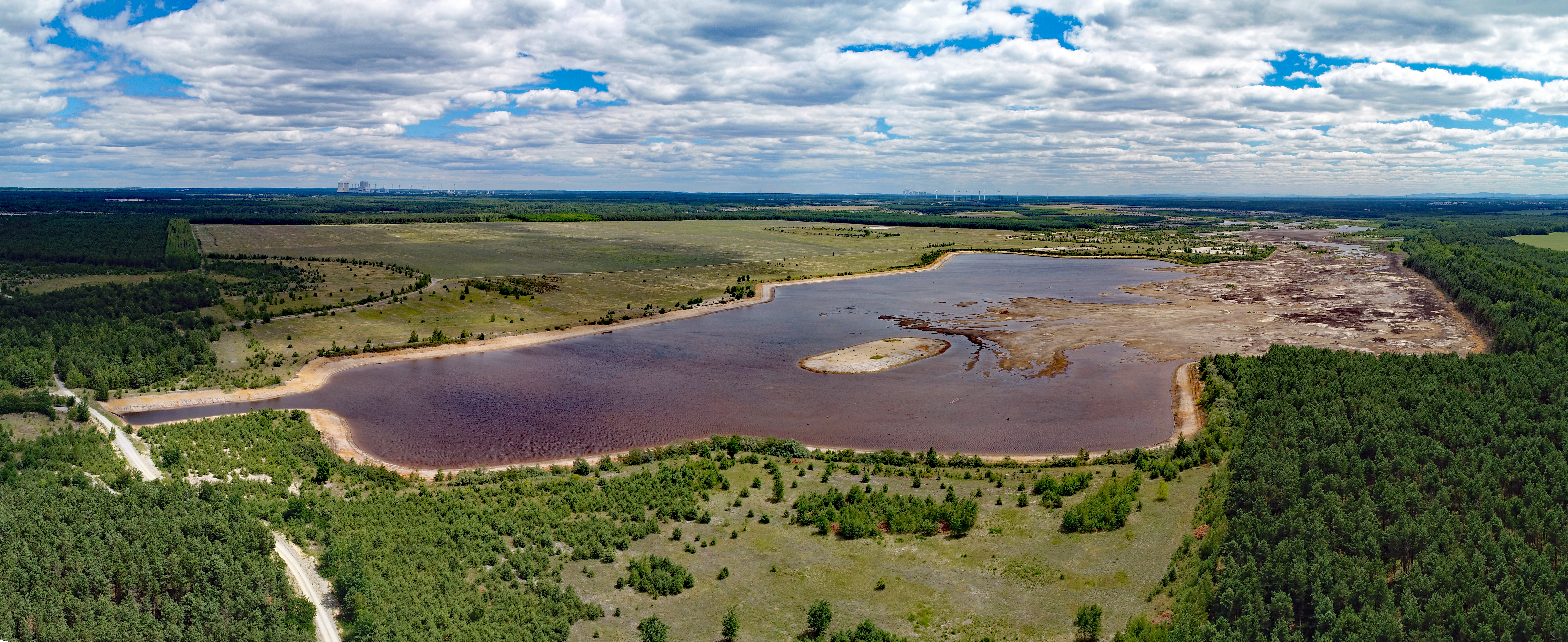 Bergener See (Elsterheide, Saxony, Germany) mit alter Uferrutschung an der rechten Seite Hornjoserbsce: Powětrowy wobraz Horjanskeho jězora